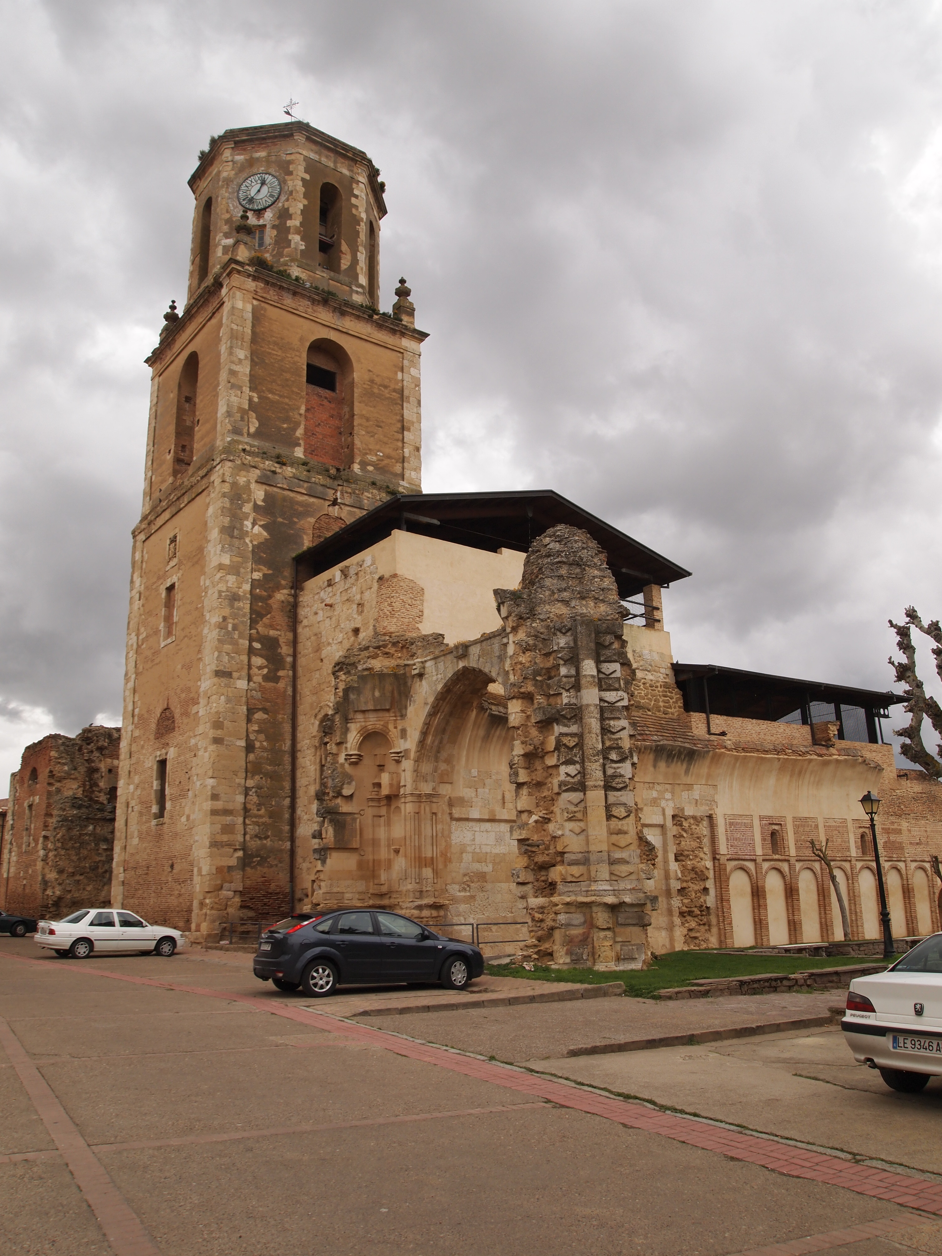 Ruins of the Monastery of Sahagún, Leon